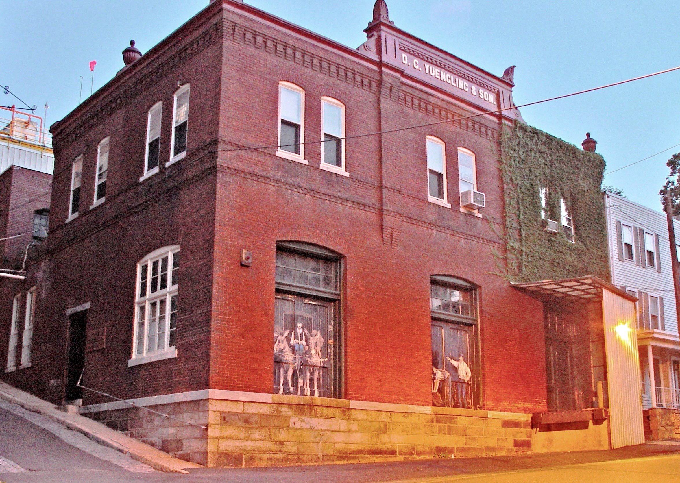 A portion of the Yuengling Brewery at night, as visible from Mahantango Street, Pottsville. Artwork now adorns the entrances on the front of the building.